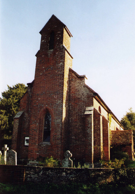 Former parish church of St Martin, Ibsley, Hampshire, seen from the west. It is now an art gallery.